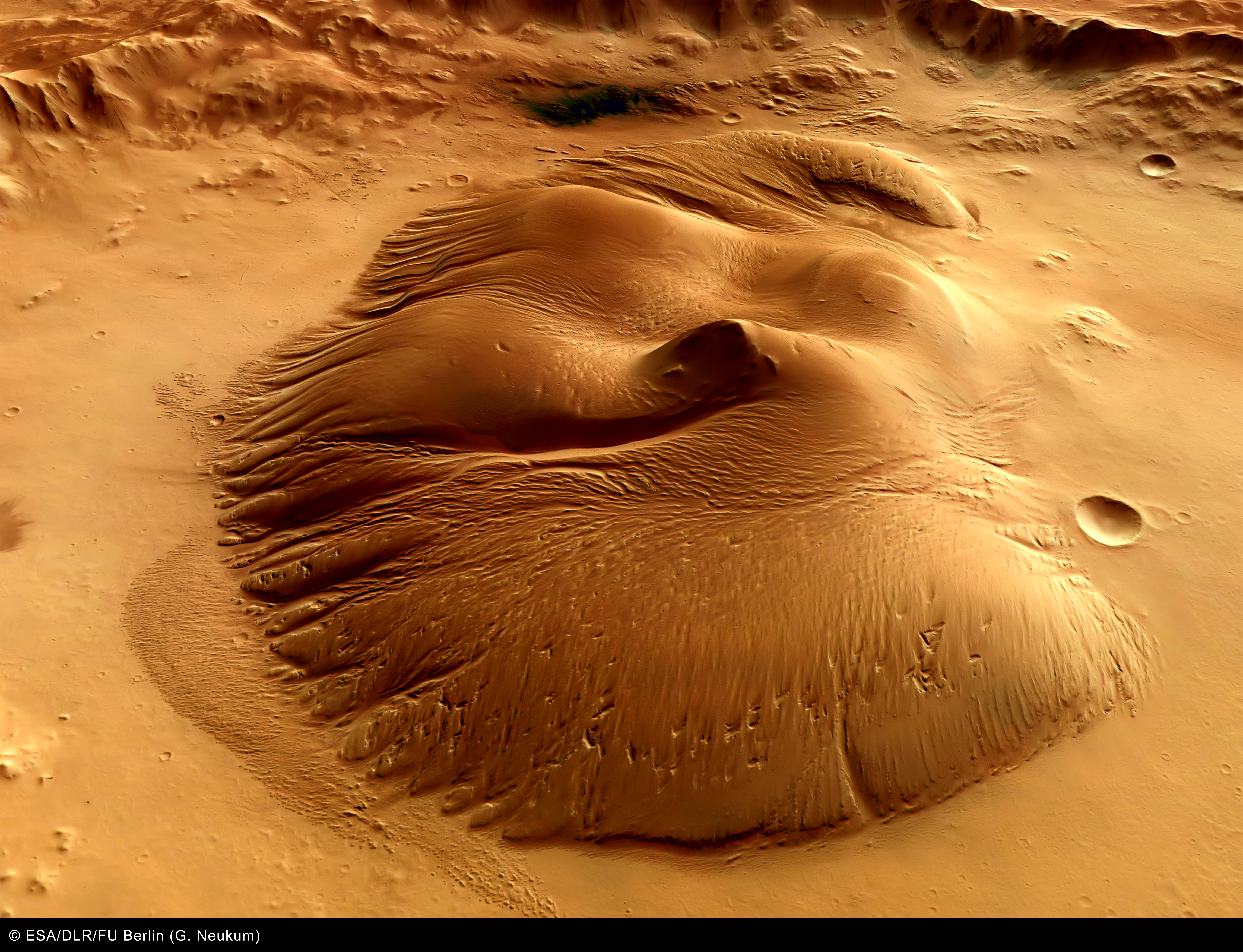 The HRSC on board ESA's Mars Express obtained this image during orbit 1104 around Mars with a ground resolution of approximately 15.3 metres per pixel. This perspective view shows the central part of Nicholson Crater, at approximately 0.0° South and 195.5° East, looking west. Nicholson Crater, measuring approximately 100 kilometres wide, is located at the southern edge of Amazonis Planitia, north-west of a region called Medusae Fossae.